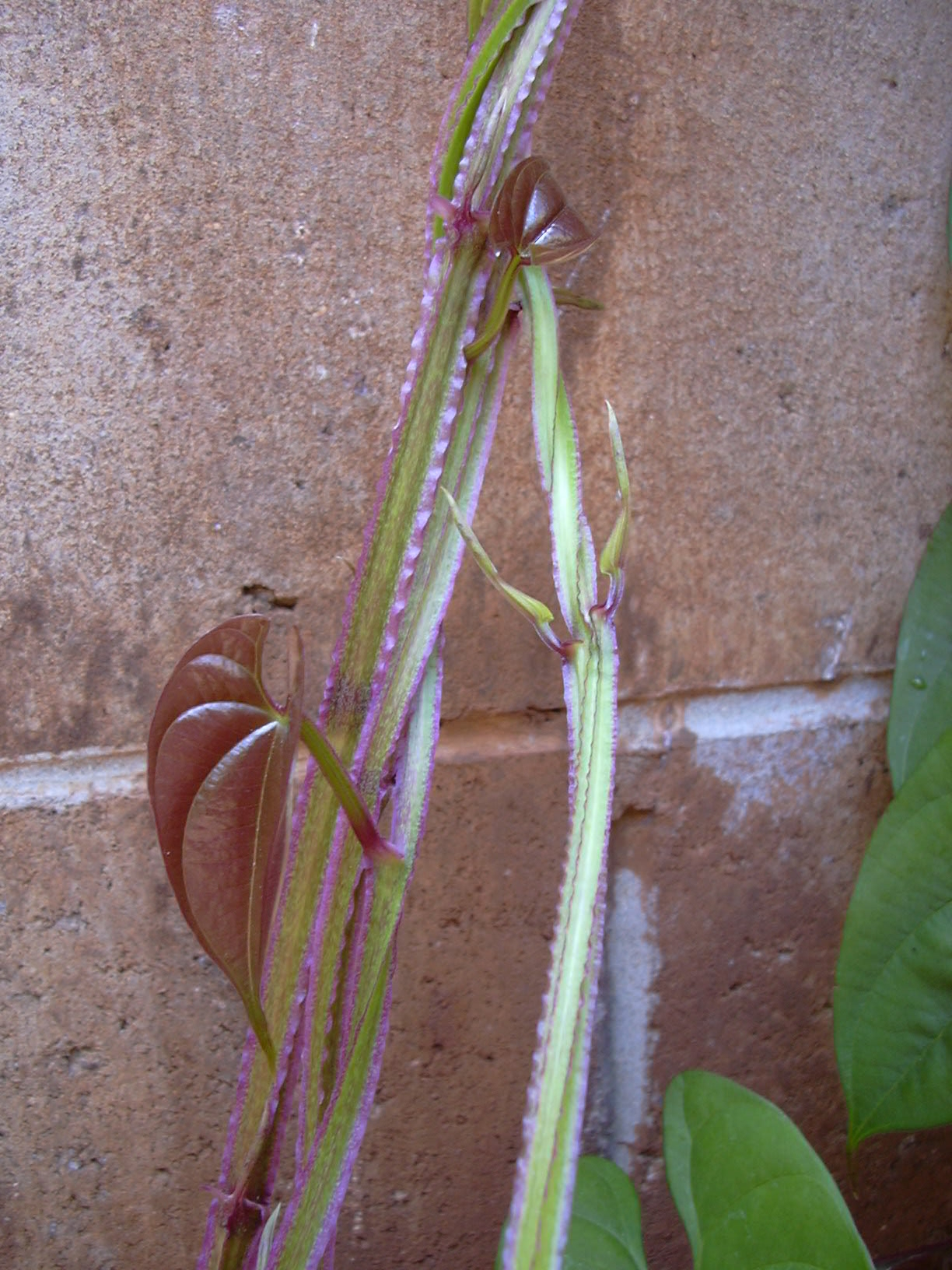 Dioscorea alata (liko). Location: Maui, State nursery Kahului